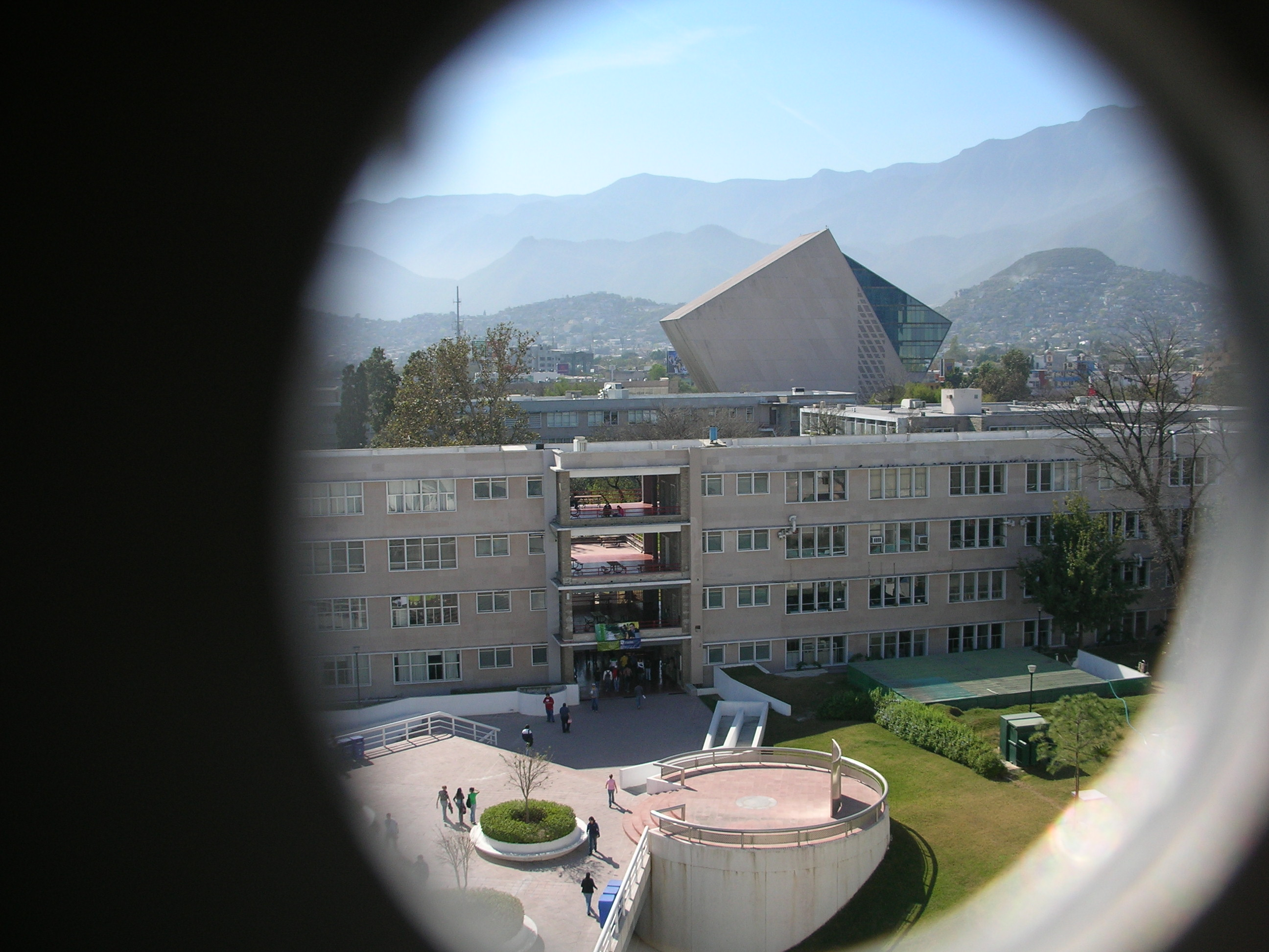 The oldest building of classrooms and the towers of the Center of Advanced Production Technology (CETEC) at the Monterrey Institute of Technology, Monterrey Campus.